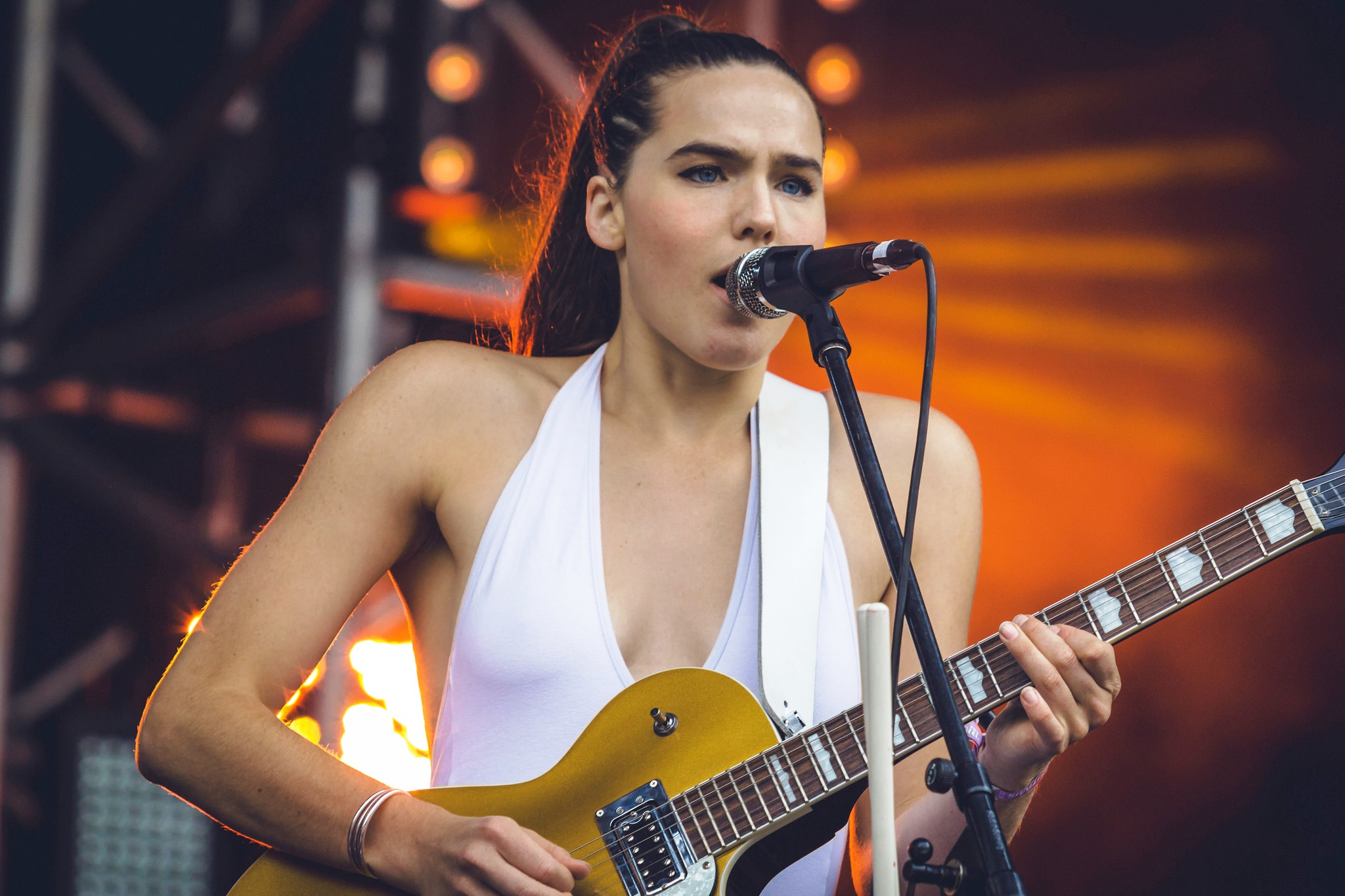 Sophie_Hawley-Weld during a concert in 2016